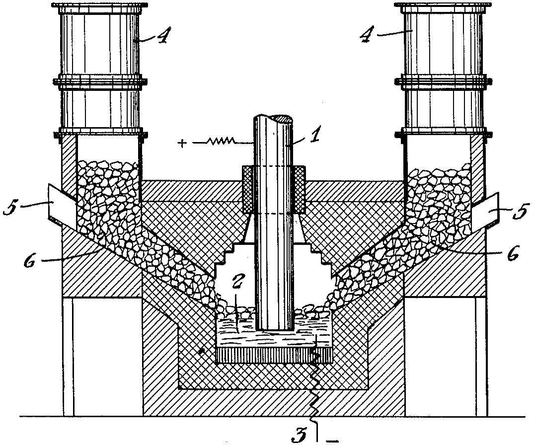 Henning Flodin Gustav patent (US1691272), describing its direct reduction furnace, or Flodin process.